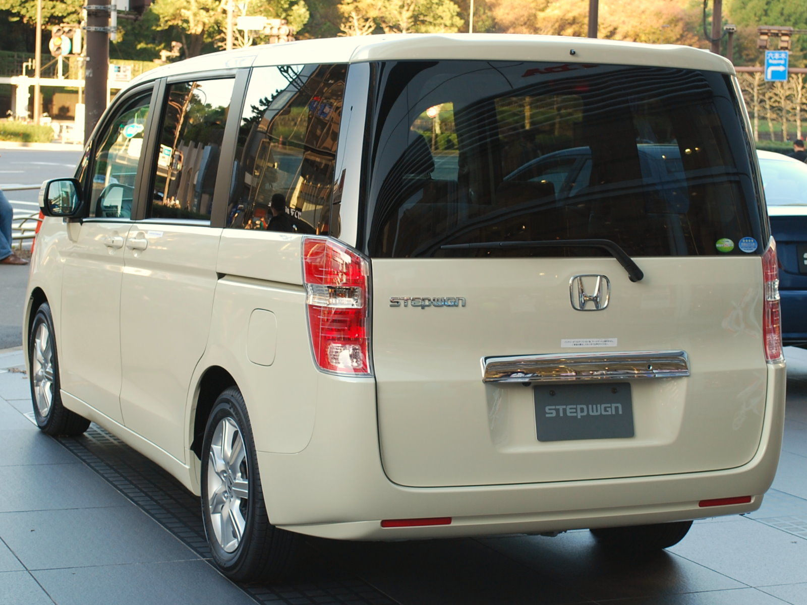 4th generation Honda Stepwgn